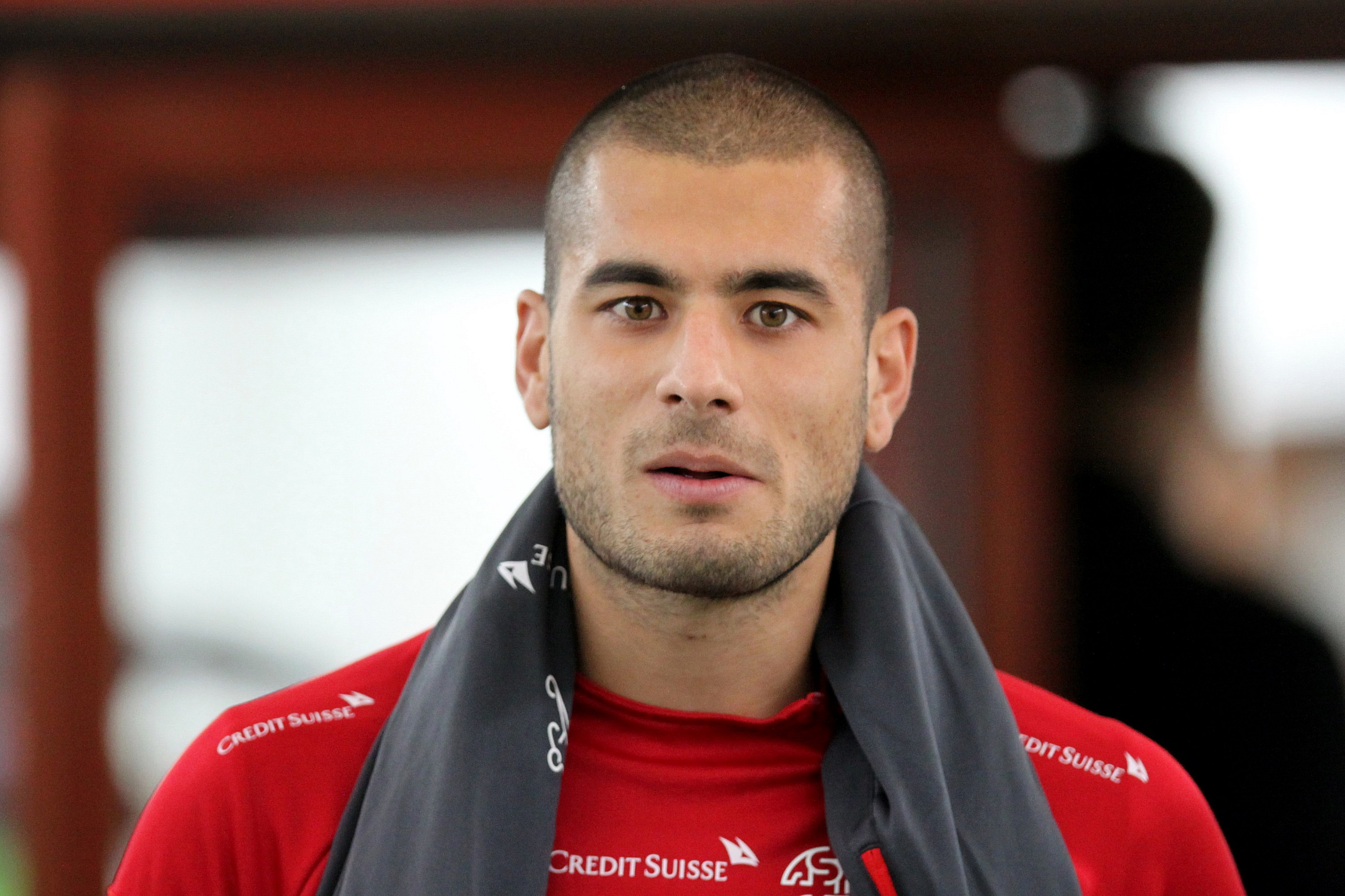 Friendly match – Austria (red shirts) vs. Switzerland (white shirts) 1-2 (1-2) – 2015-11-17 in Vienna, Ernst-Happel-Stadion – The photo shows Eren Derdiyok (Switzerland).